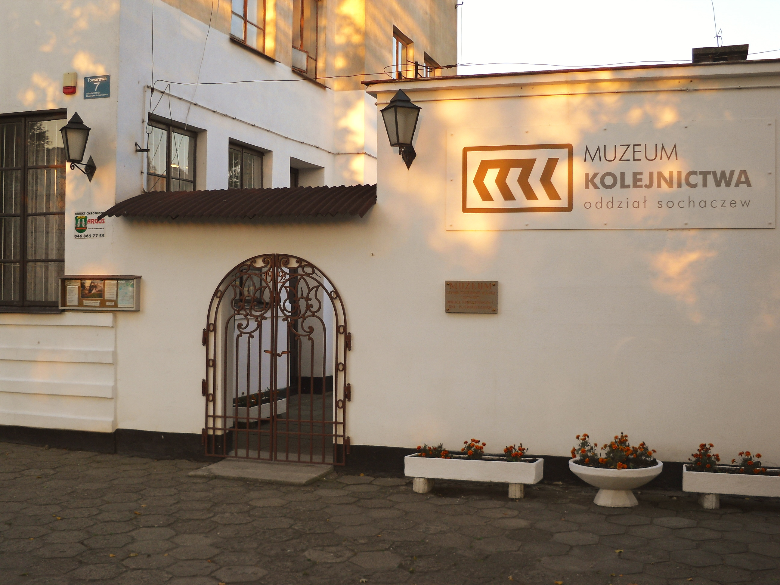 Sochaczew, Narrow Gauge Railway Museum - entrance